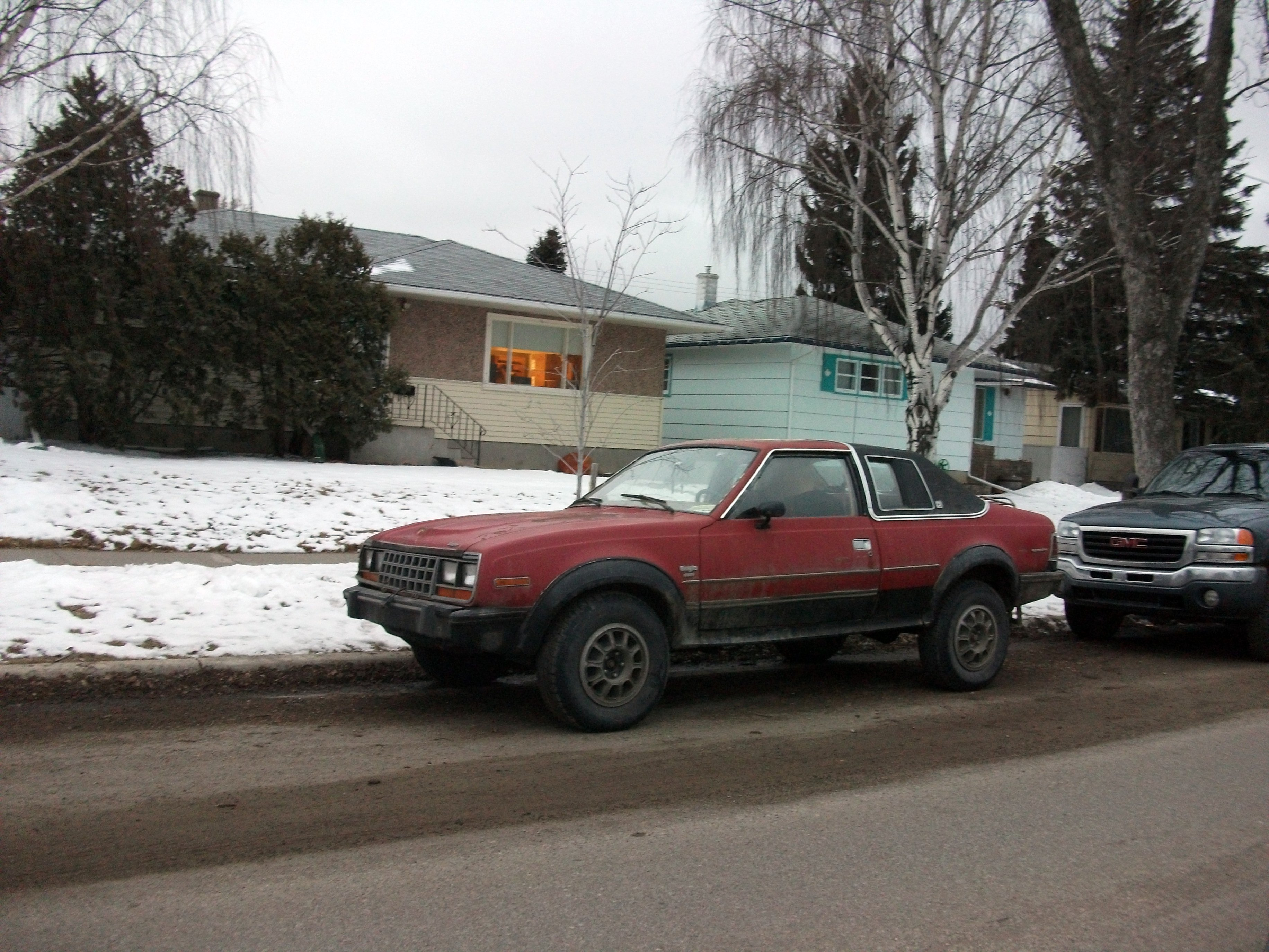 AMC Eagle 4x4 coupe with vinyl roof.